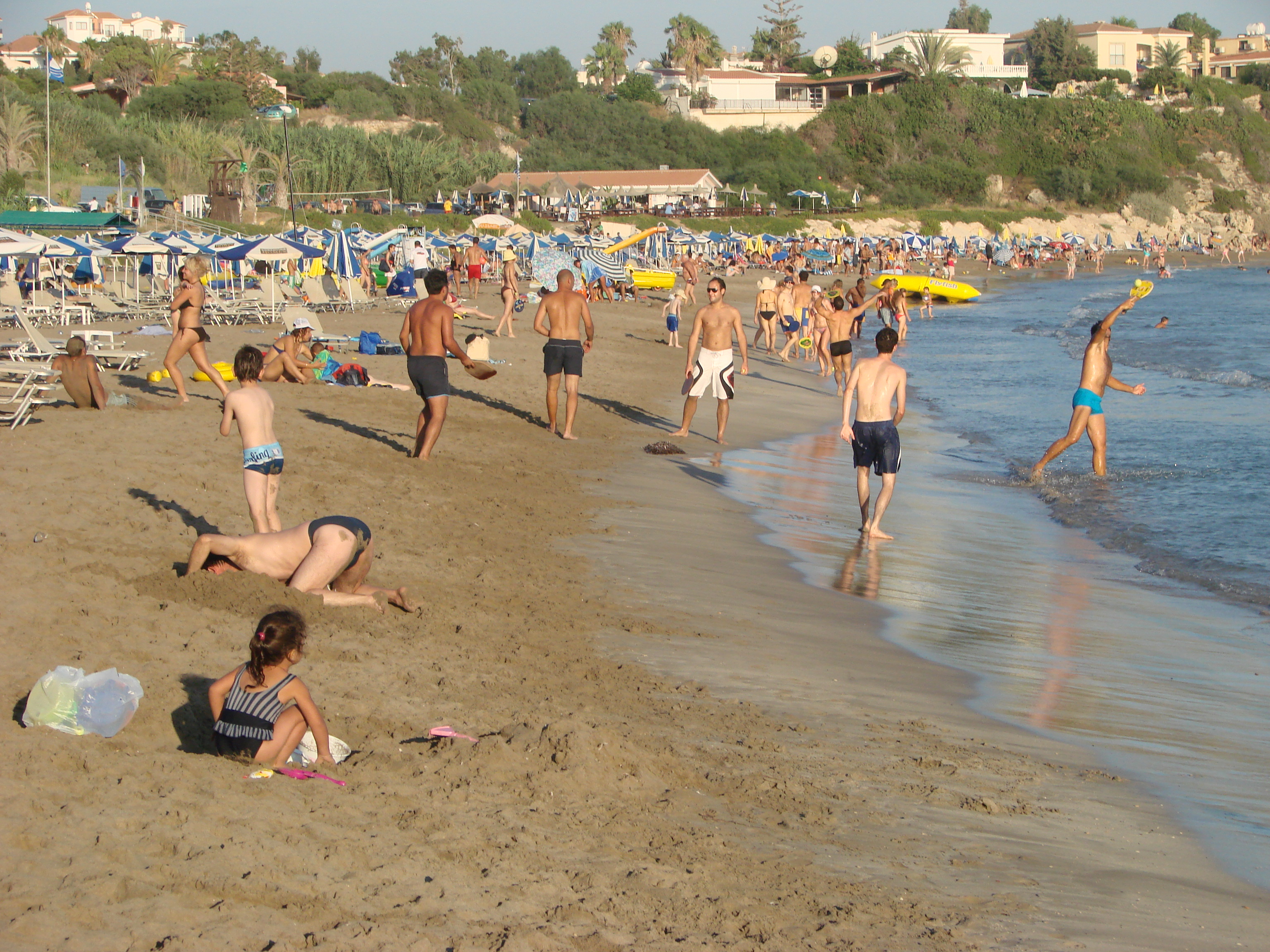 General view by the beach